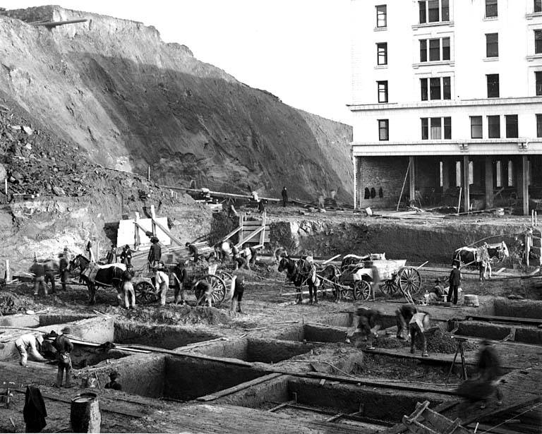 On verso of image: Excavating for new Hotel Washington 11-26-06 Subjects (LCTGM): Foundations--Washington (State)--Seattle; Building construction--Washington (State)--Seattle; Horse teams--Washington (State)--Seattle Subjects (LCSH): Excavation--Washington (State)--Seattle; Wagons--Washington (State)--Seattle; New Washington Hotel (Seattle, Wash.) New Washington Hotel is still extant 2019 as the Josephinum.